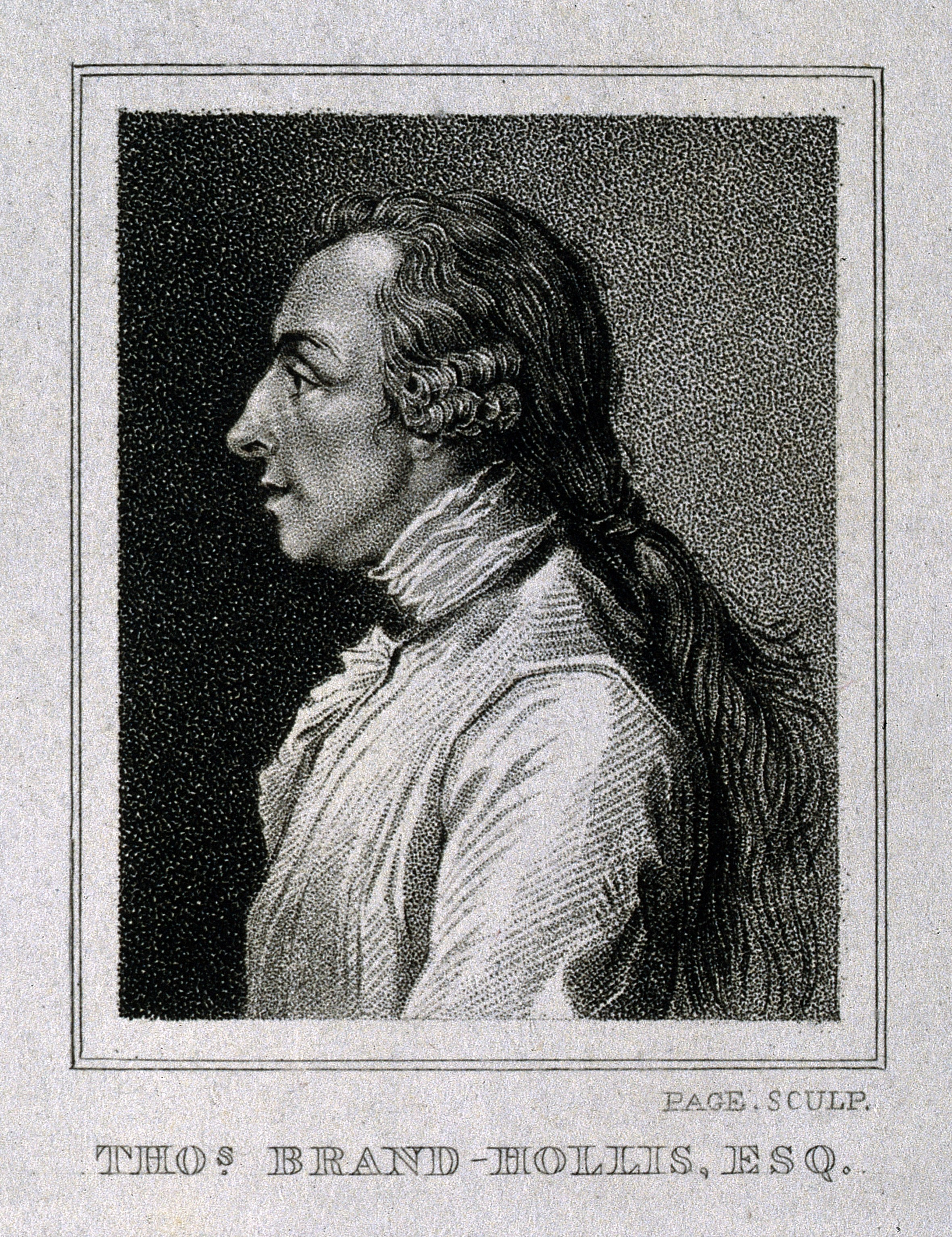 Thomas Brand-Hollis of the Hyde. Stipple engraving by R. Page, 1820. Iconographic Collections Keywords: portrait prints; stipple prints; brand-hollis, of the hyde, tho; of the Hyde Brand-Hollis